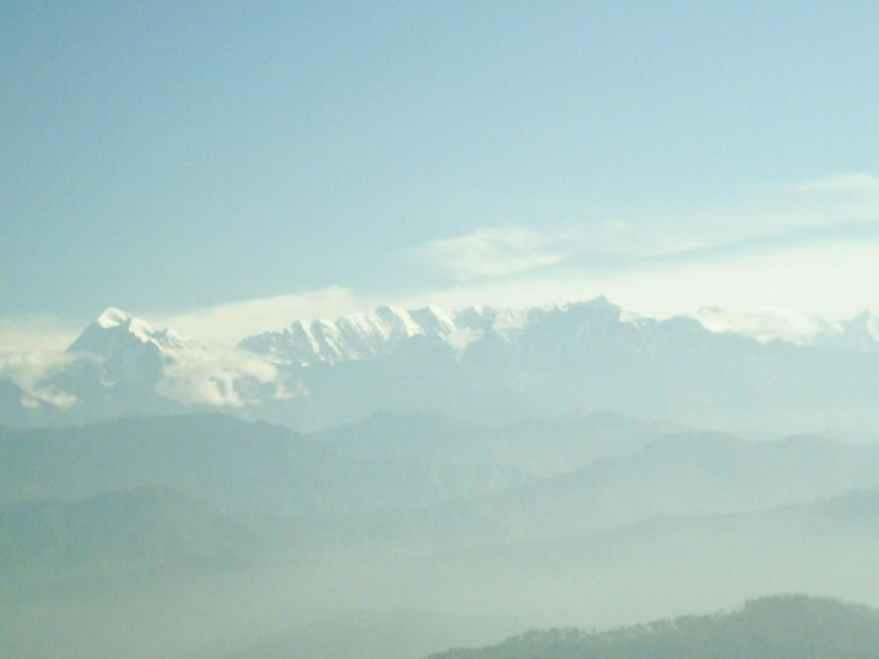 View of Himalayas from Kausani Village. Photographed on 29 July 2006 in Kausani by myself. Original pics was shrinked to suit here. Kausani is Village in Almora district. 45 km from Ranikhet and 55 km from Almora.